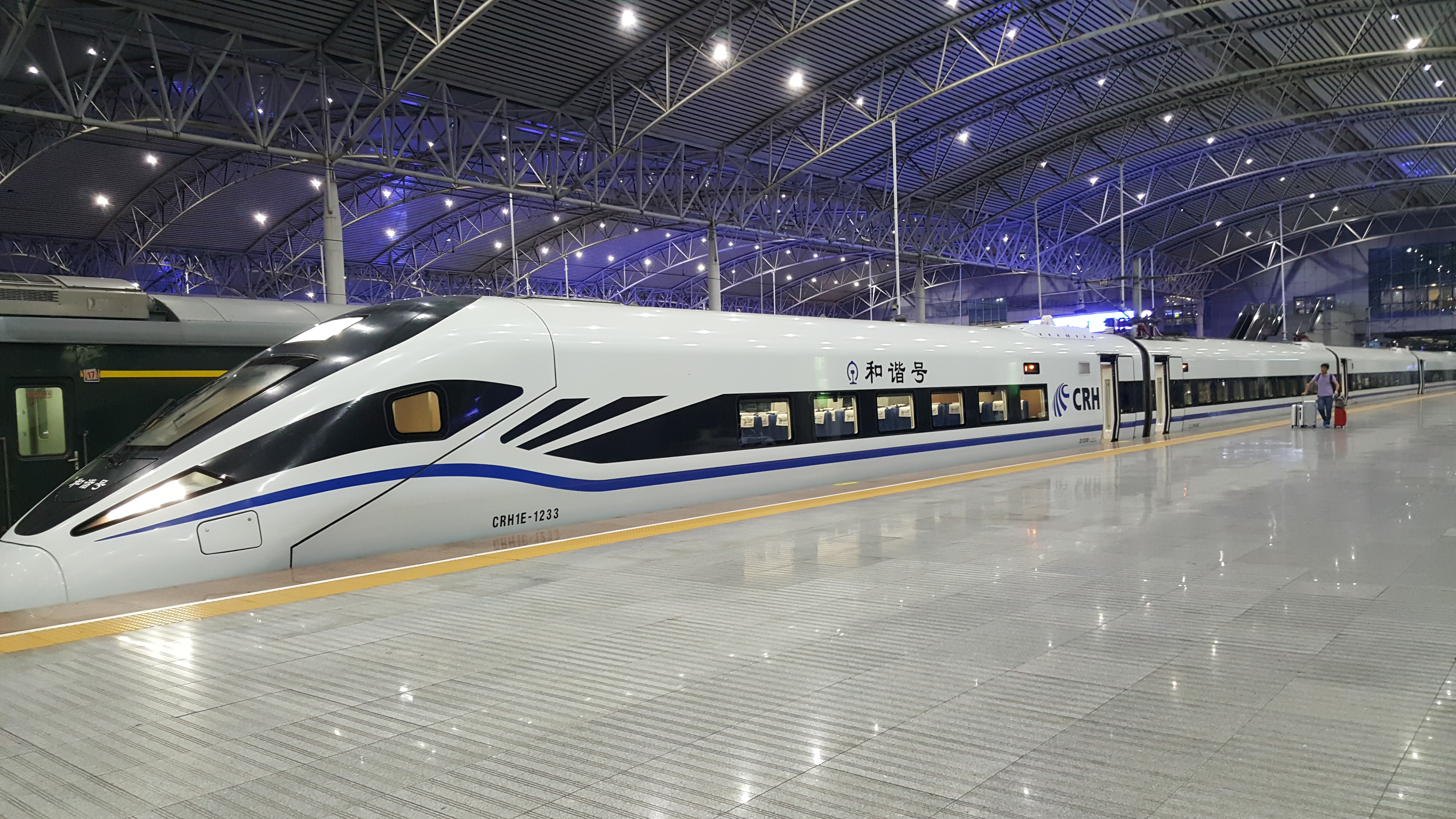 CRH1E-1233 at Shanghai Railway Station